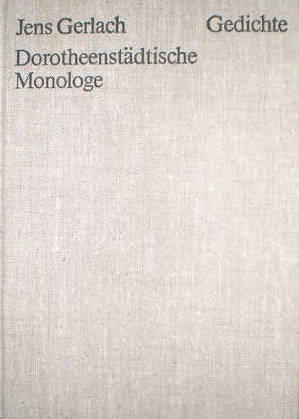 Book cover of Jens Gerlach, "Dorotheenstädtische Monologe. Gedichte" 1982